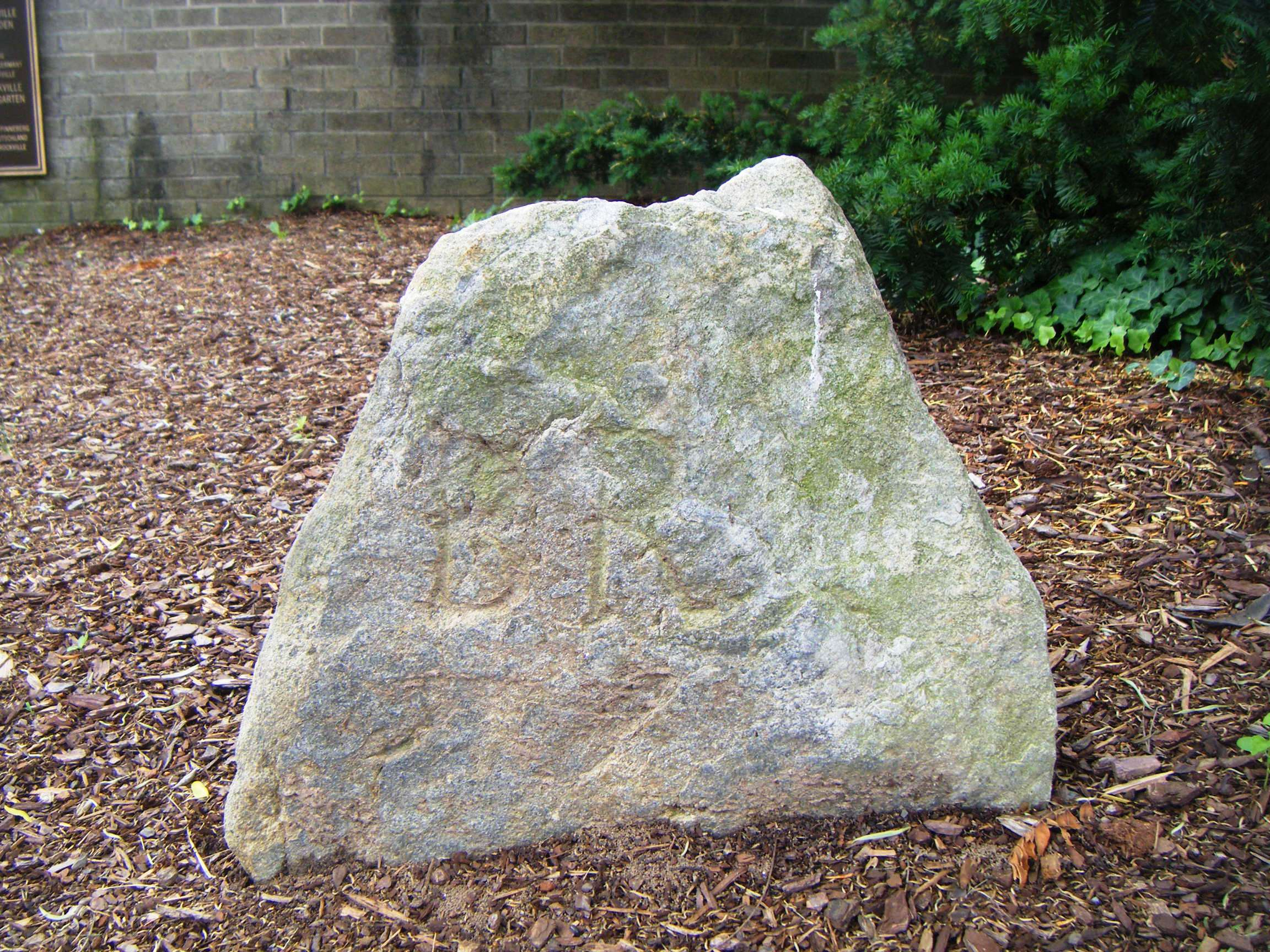 Cornerstone on the corner of Vinson Street and Maryland Avenue in Rockville, Maryland. Originally placed there in 1803 when the town was being planned. Marked "BR" for "Beginning of Rockville"